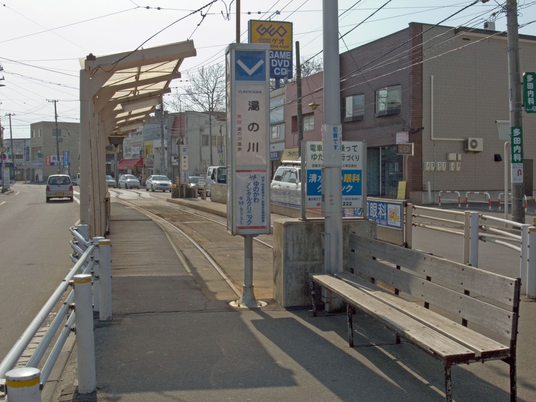 Yunokawa station in Hakodate tram, Hokkaido, Japan